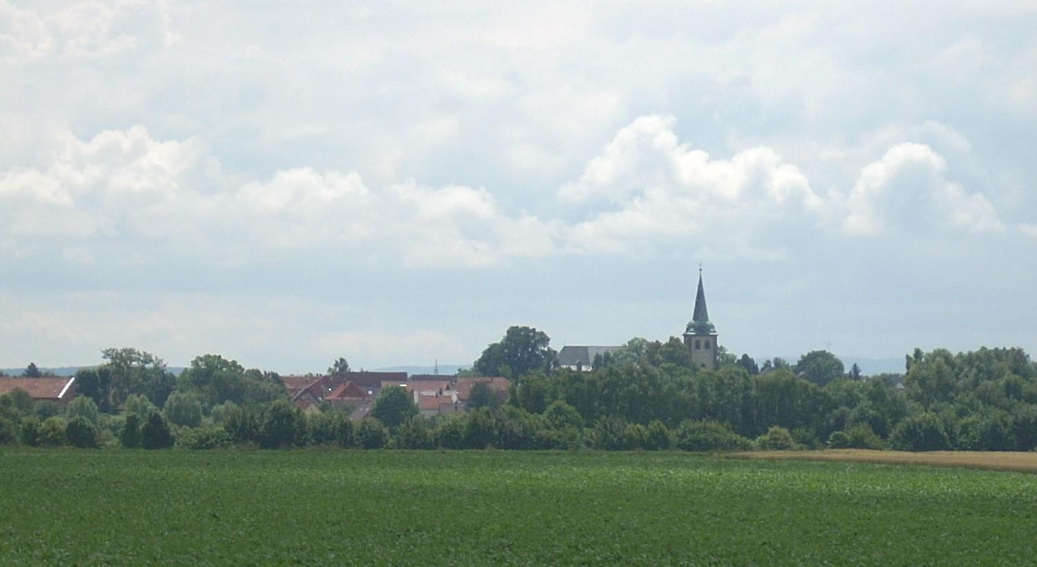 Algermissen, view from north